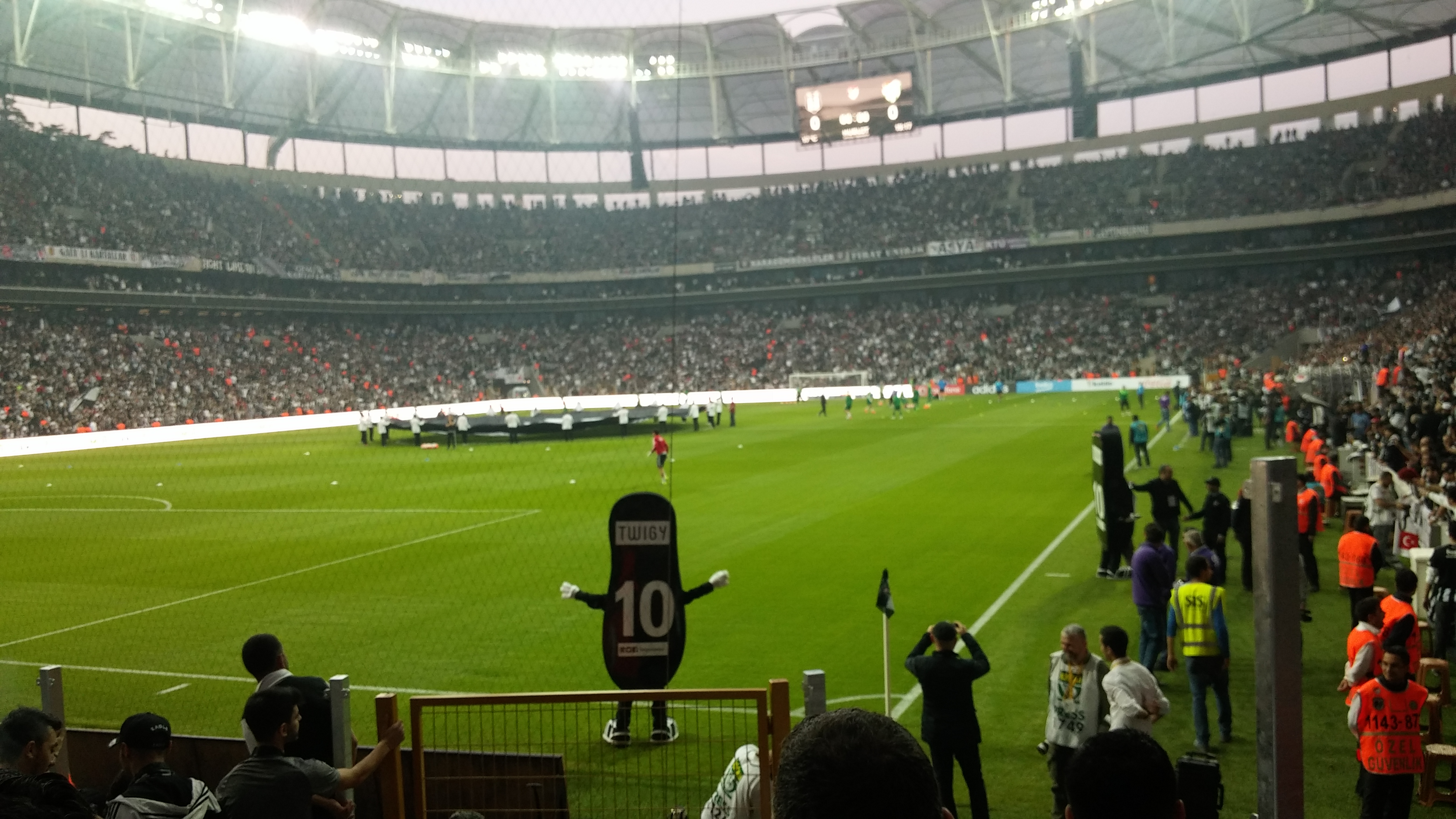 Beşiktaş J.K. vs Bursaspor, 11 April 2016